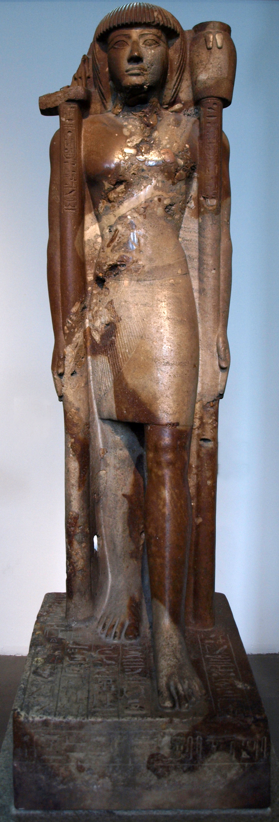 A standing statue of Khaemwese, son of Ramesses II. Made of red breccia stone, he holds two emblems: right hand holds an Osirian triad, the left a fetish representing Abydos. Found at Asyut, 19th dynasty, circa 1260 BC. EA 947.